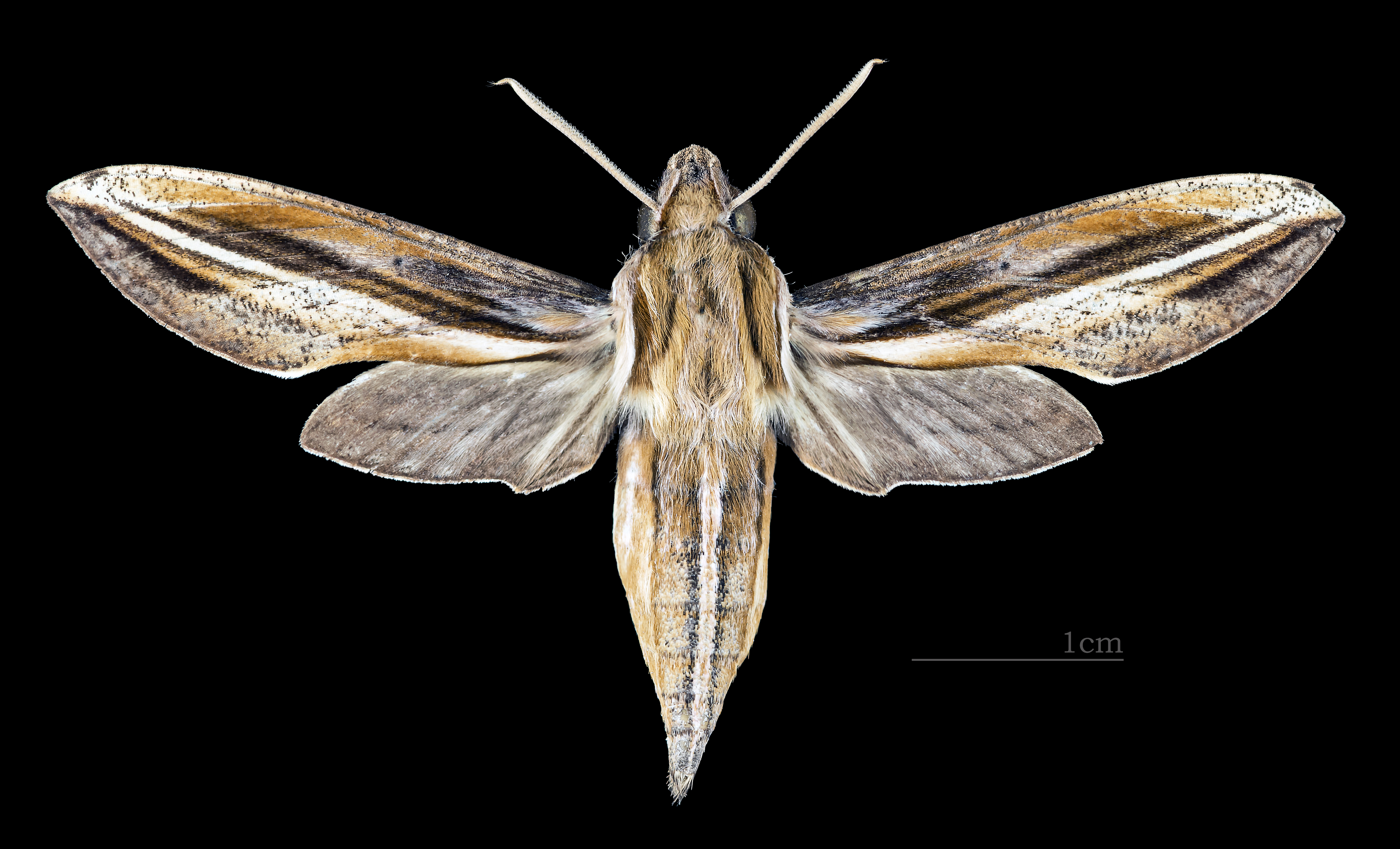 Xylophanes thyelia - Dorsal side